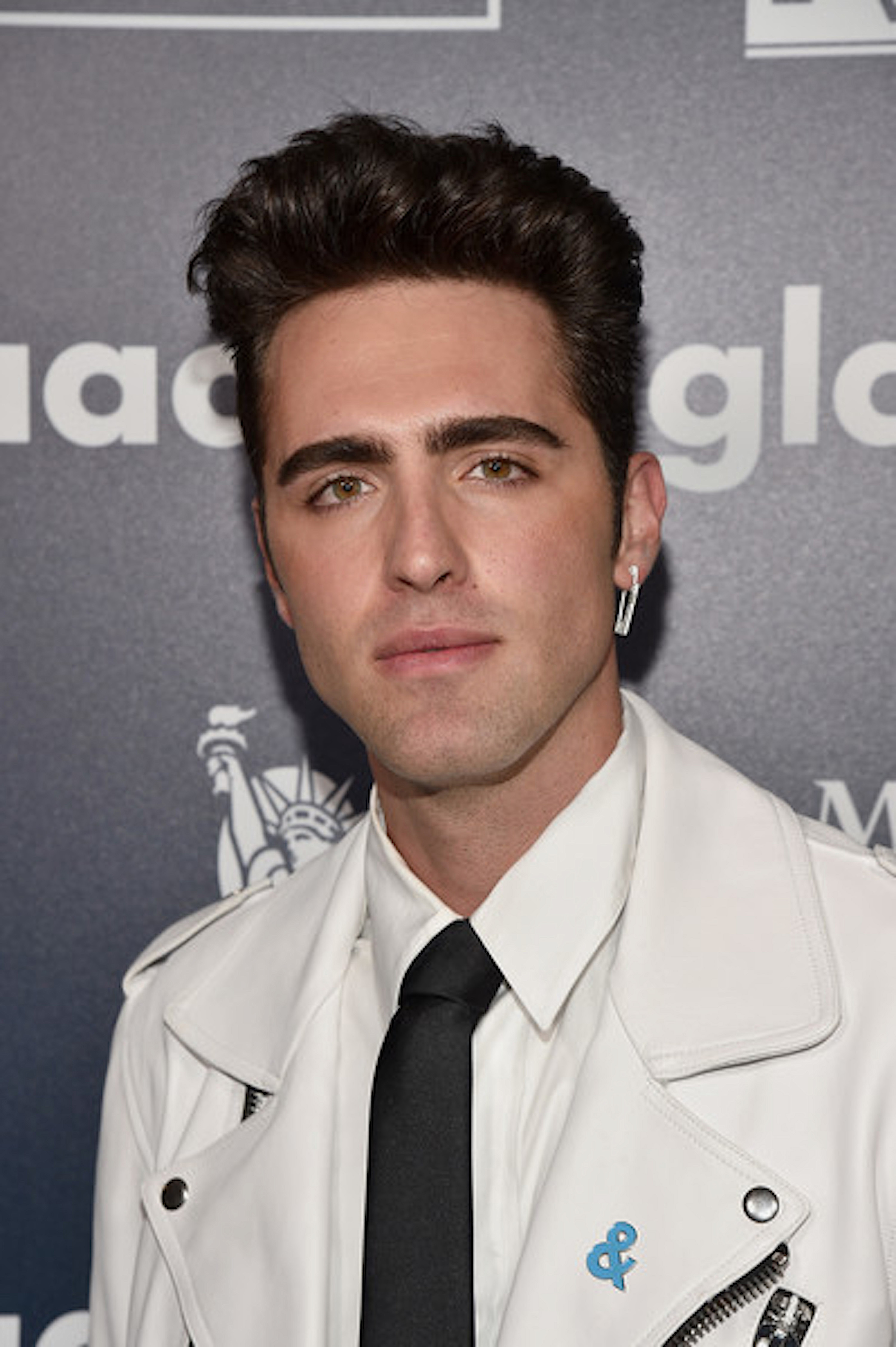 David-Simon Dayan at the Annual 28th GLAAD Awards